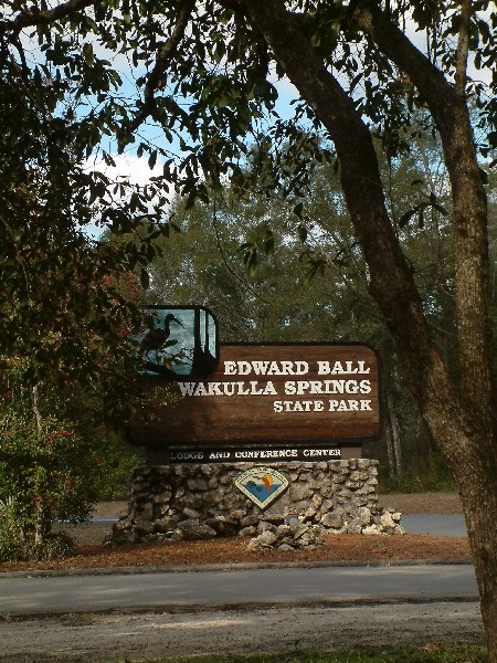 Entrance sign at Edward Ball Wakulla Springs State Park in Florida